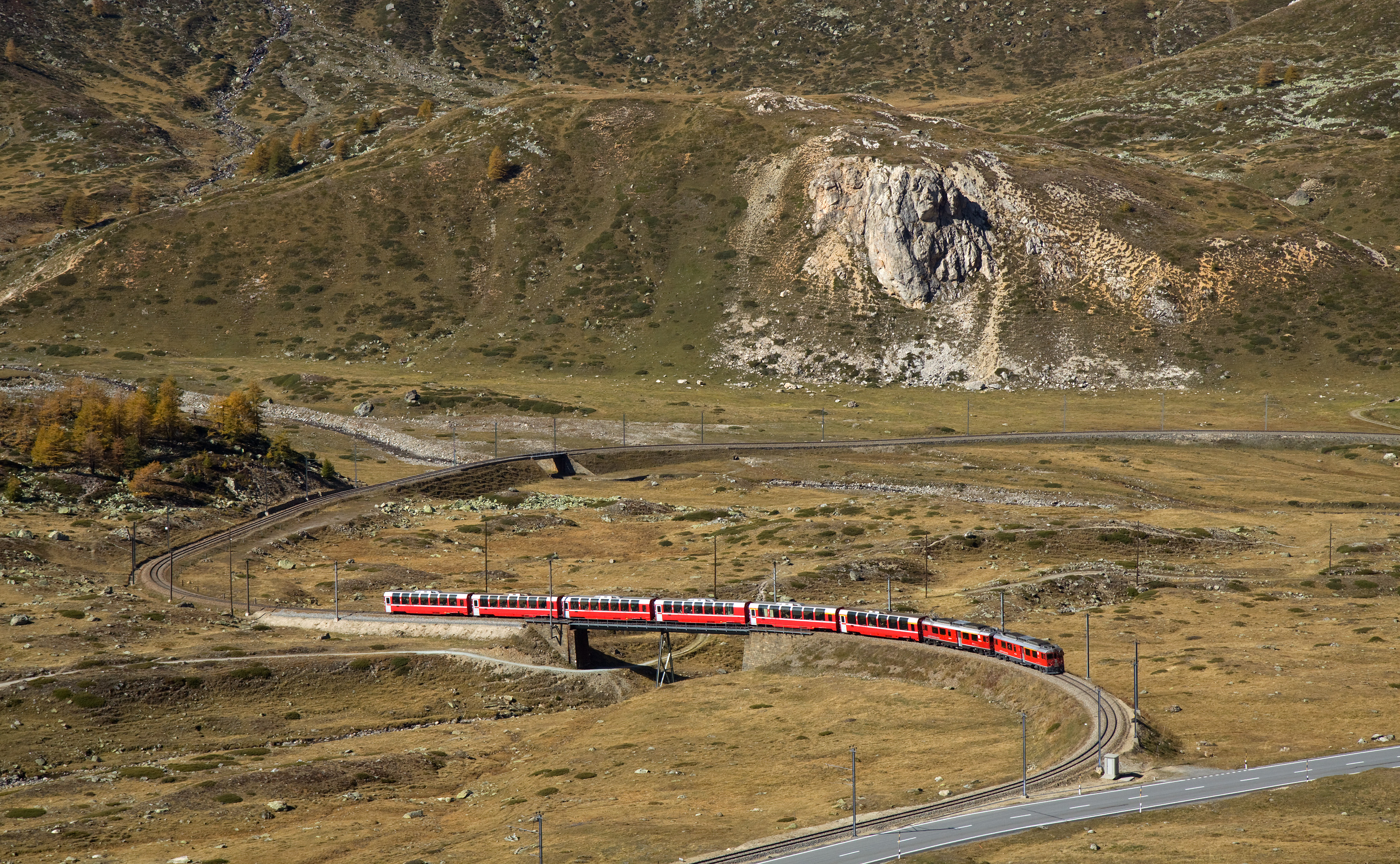 Bernina Express crossing the upper Berninabach bridge, on the very steep grade (up to 70 per mil, 1 in 14!) before the summit at Ospizio Bernina. The train is hauled by two ABe 4/4 III EMUs working in multiple.